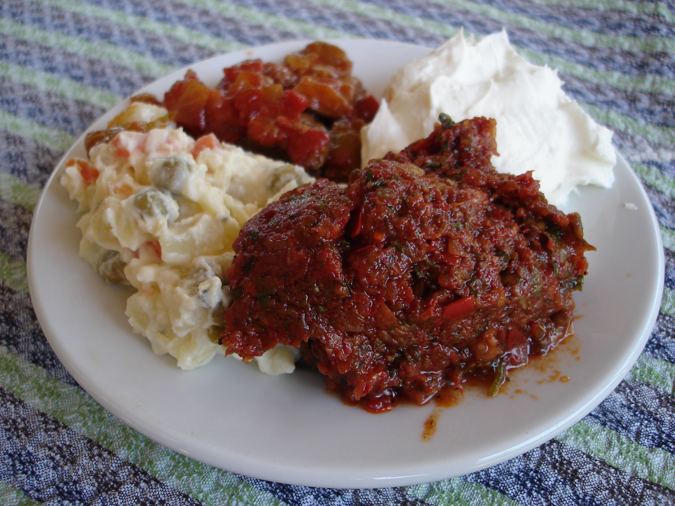 A plate of delicious Turkish mezes, including the "Köpoğlu mancası"